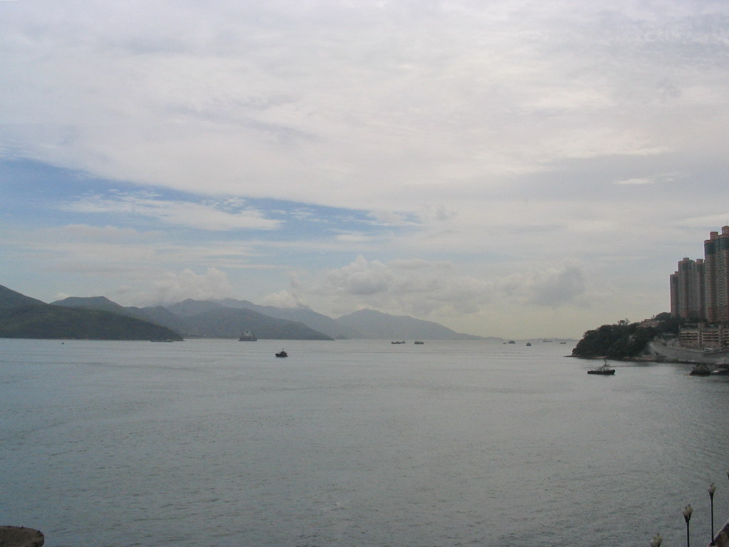 從深井眺望龍鼓水道 Urmston Channel viewed from Sham Tseng